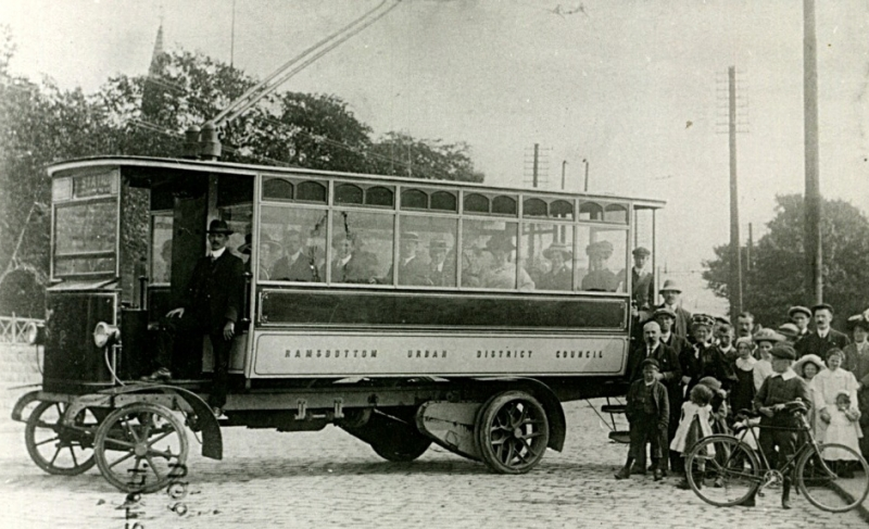 A front three-quarter view of a Ramsbottom trolleybus.